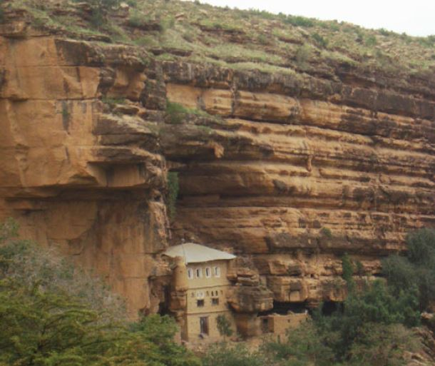 Abune Aregawi Zeyi in Simret